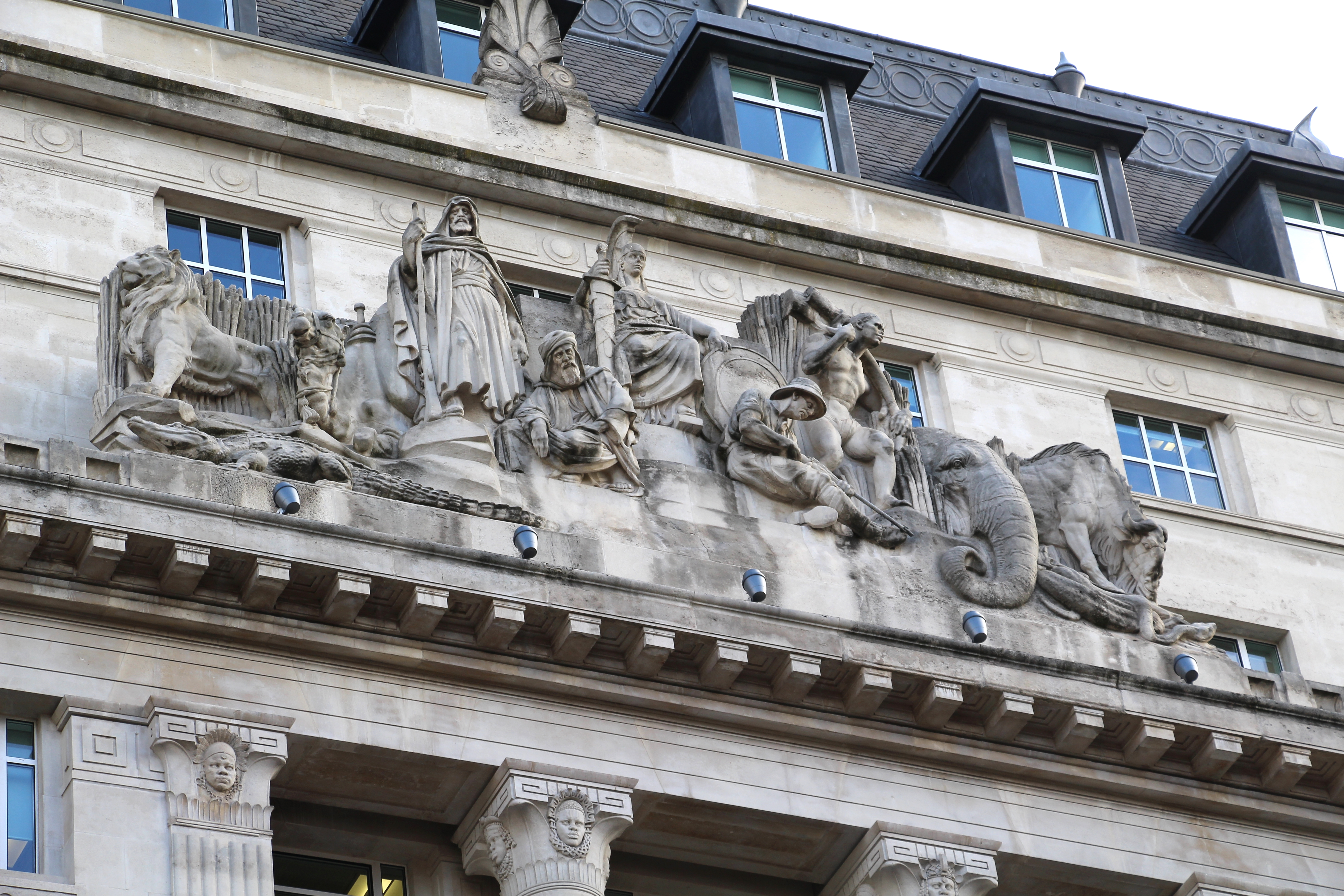 Westminster | Kingsway Arch. Trehearne & Norman 1921. Sculpture over the cornice by Benjamin Clemens, the group has Britannia at its centre, flanked by noble Arab traders with their camels and a big game hunter oiling his rifle.